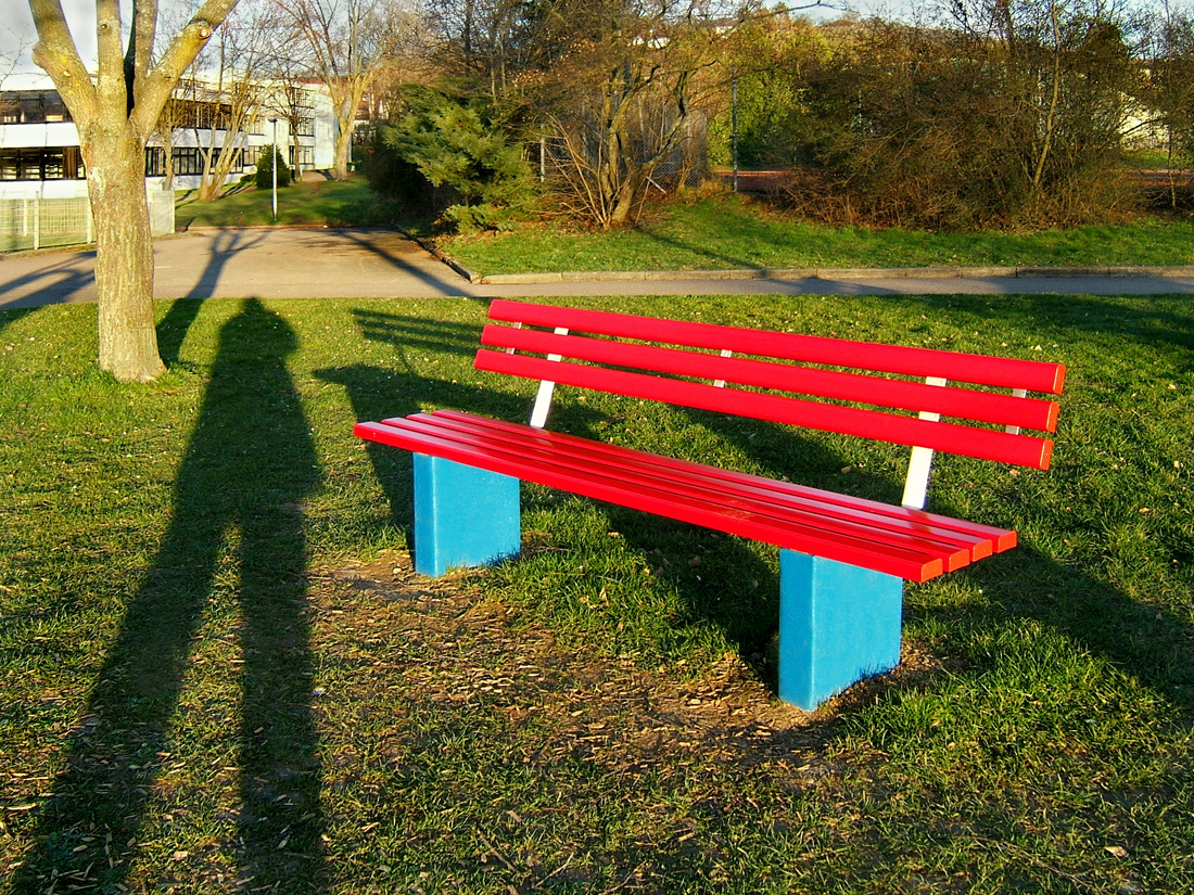 Playground in Winnenden, Germany